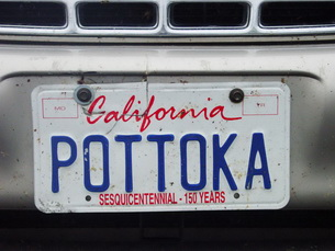 Martxel Tillous Basque priest's van's plate